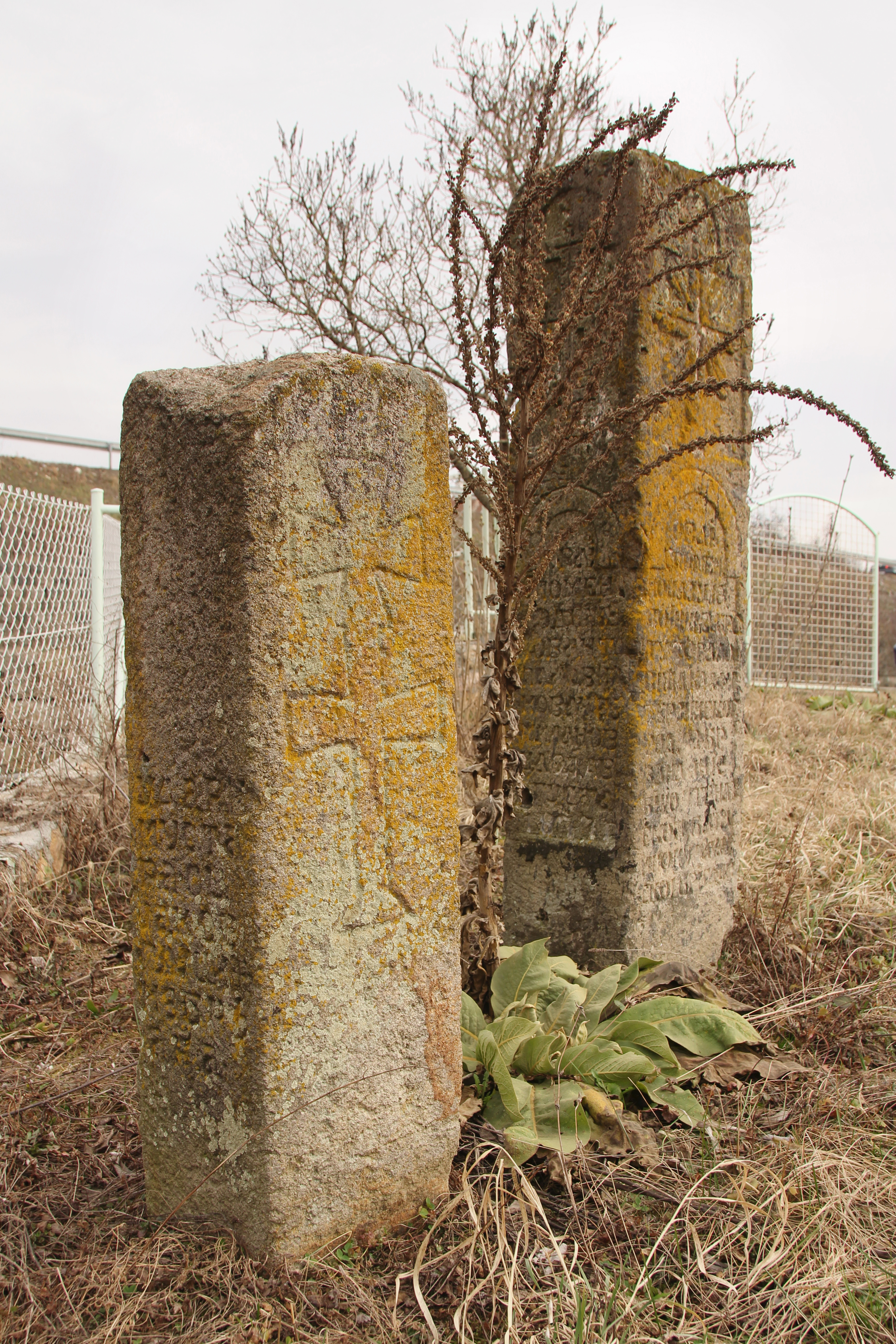 Roadside tombstones erected in memory of Krsta Topalovic and Ilija Stevanovic. They are located in the village Brdjani (municipality of Gornji Milanovac), Serbia.